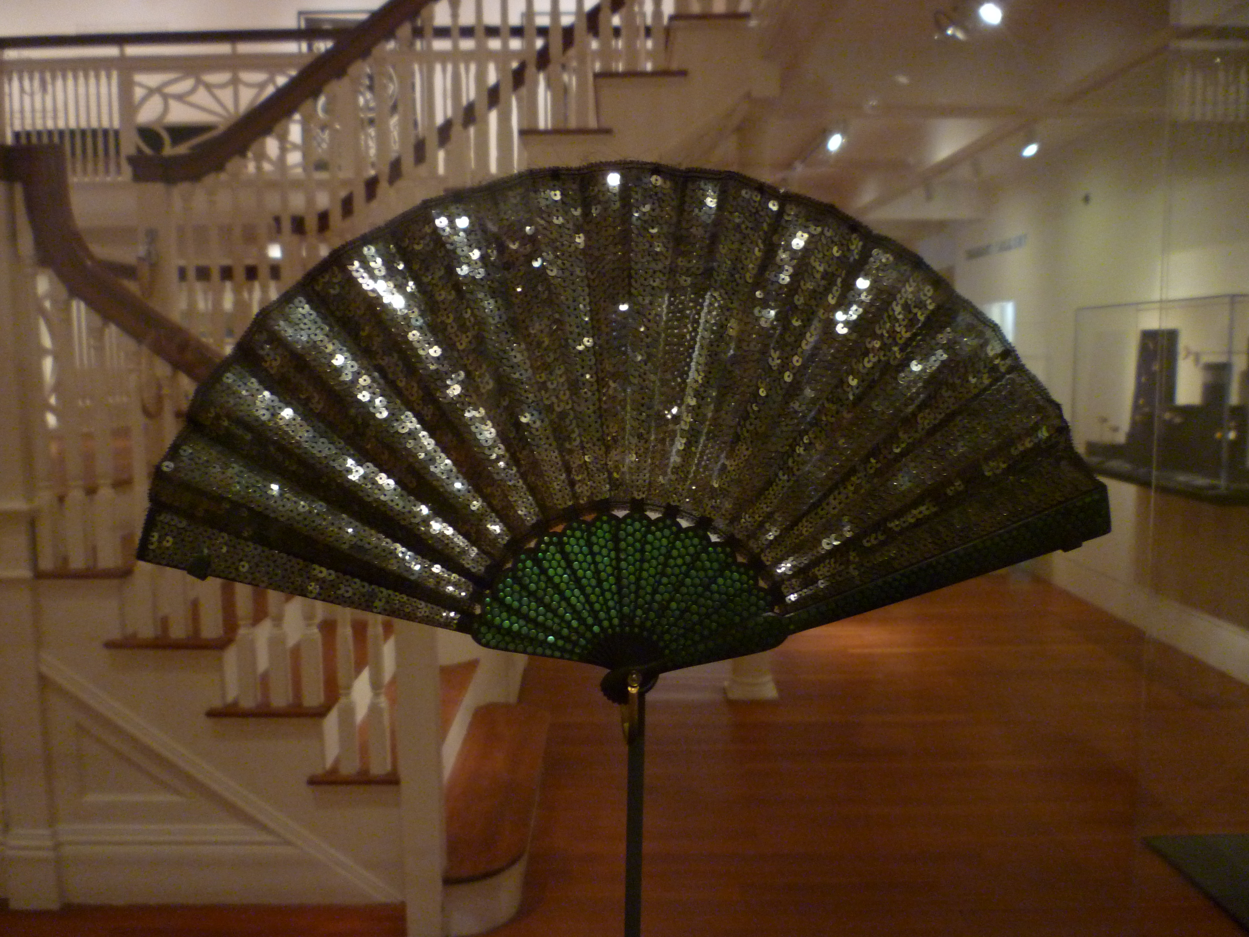 Fan: silk, spangles, wood, metal. Europe or United States.